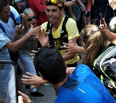 Pau Capell at Ultra-Trail du Mont-Blanc 2019